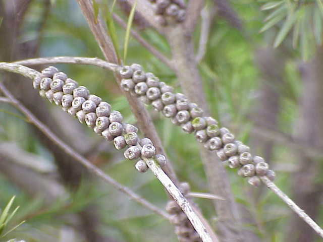 Species: Callistemon sieberi Family: Myrtaceae Image No. 2